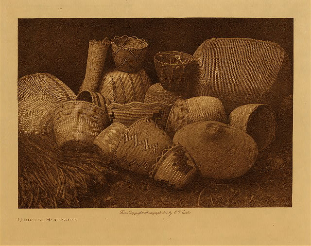 Quinault baksets. Original title "Quinault handiwork".